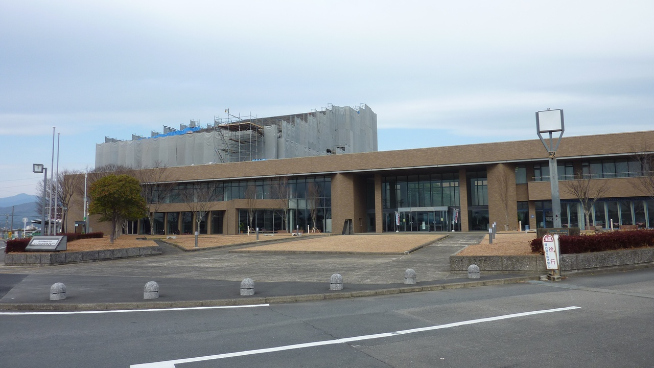 Nobeoka Cultural Center (Nobeoka City, Miyazaki Prefecture, Japan)